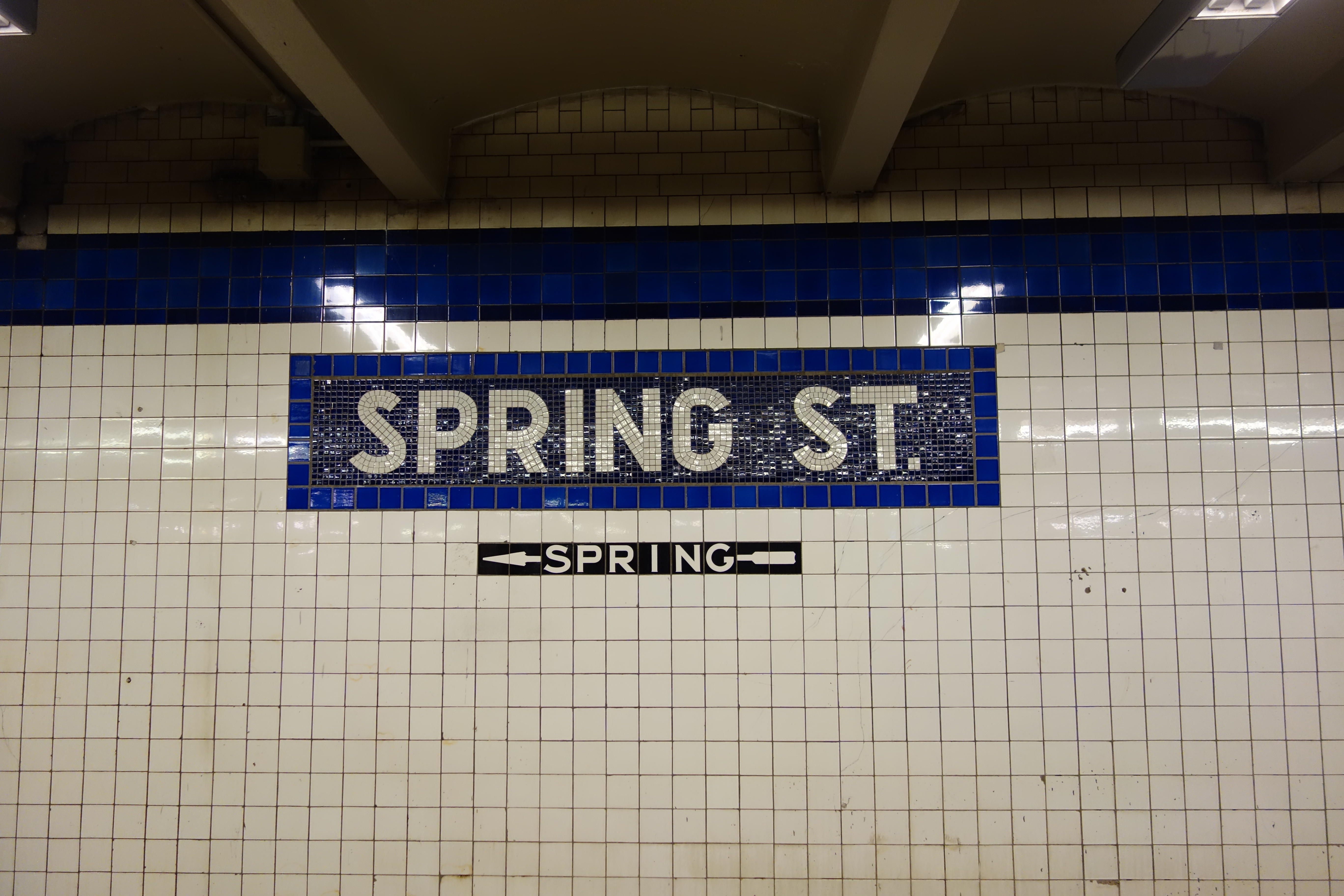 A mosaic sign on the Downtown platform of the Spring Street IND station, under 6th Avenue and Spring Street in SoHo / Hudson Square, Manhattan. This is one of the original mosaics, unlike those at the north end of the station.